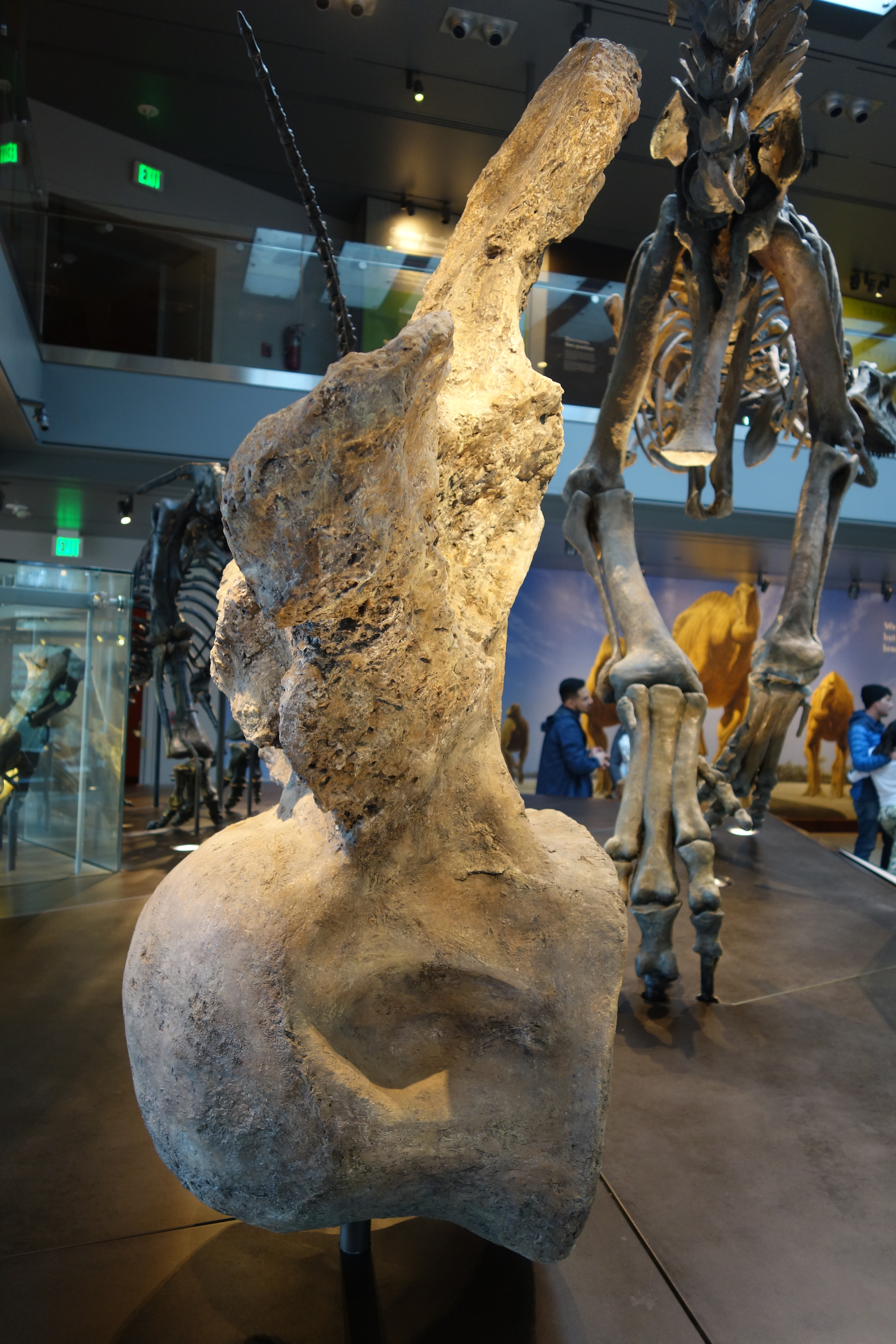 Argentinosaurus dorsal vertebra cast on exhibit at the Natural History Museum of Los Angeles County.